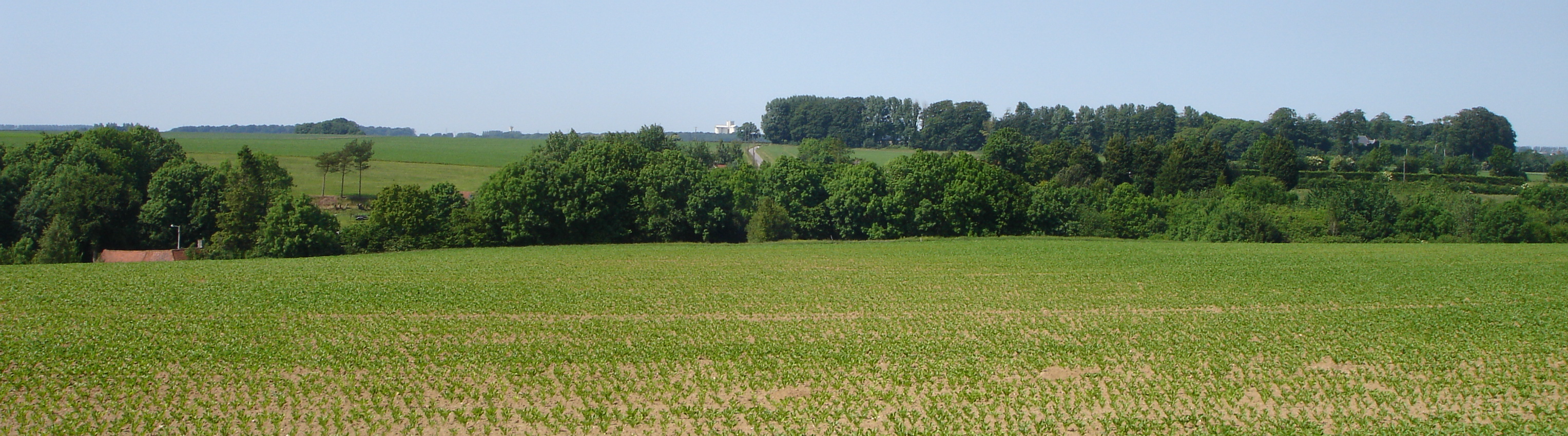 View of Mouriez plateau (Canche-Authie interfluve)